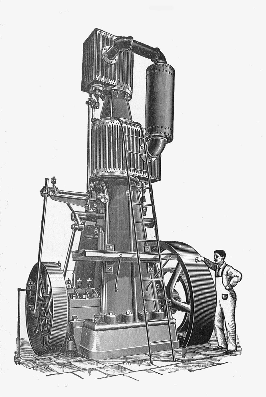 Fitchburg steeple compound engine (New Catechism of the Steam Engine, 1904).jpg